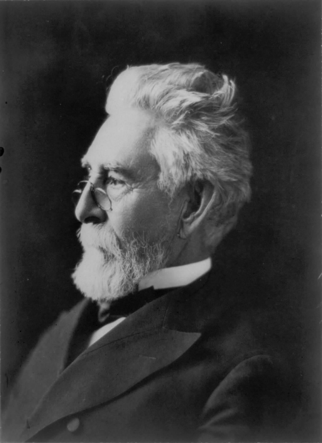 Norman Jay Coleman